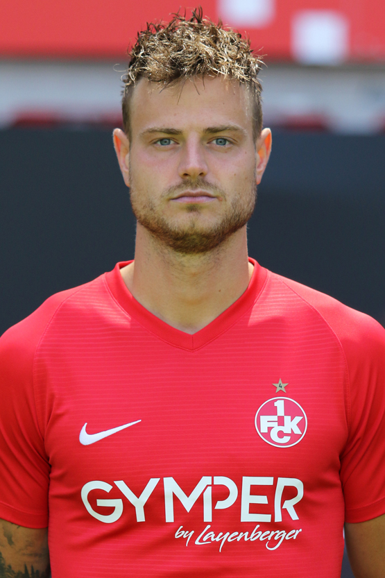 Timmy Thiele (Nr. 9)